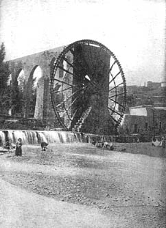 al-Na‘urah al-Muhammadiyah is one of a number of famous Na‘urahs (pl. Nawa‘ir) that have been present in northern Syria for centuries. Mention of them first appeared in Vitruvius’, De Architectura, Book 10, Ch. 5.;1 however, more frequent mention of them occur within Islamic texts, due to their extensive use within the Islamicate world. The al-Muhammadiyah dates back to the 14th century. Na‘urahs were present from Islamic Spain (al-Andalus) to Iran and were used to irrigate lands or supply drinking water via aqueducts to towns and cities. The Na‘urahs of Hamah, Syria, of which the al-Muhammadiyah is one, are very famous till today in the region. They are popular among tourists, as well as to the many old and new emigrants who return home. This image appeared in the first issue of al-Funun and undeniably represents Nasib’s attempt to appeal to his readers’ sense of nostalgia for their homeland. It provides an interesting vignette of the Arab-American community of Nasib’s time, since its inclusion implies that there was a significant number of Syrians from northern Syria resident in the United States who would appreciate this image’s inclusion in the journal.